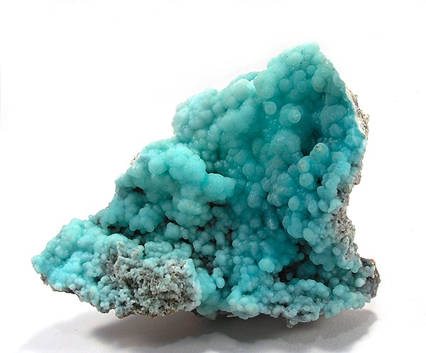 Gibbsite Locality: Baoshan Prefecture, Yunnan Province, China (Locality at ) Size: small cabinet, 6.1 x 4..3 x 1.6 cm Gibbsite This was a onetime find about 6 years ago, where one room at Tucson had some flats of this rare material that was at first (and still often is...) mistaken for hemimorphite but is instead this rare aluminum hydroxide species. You can tell actually, just by the heft which is exceedingly lightweight! But nobody suspected any such mineral and so there they were, sold as hemimorphite in the beginning. Now, they are impossible to get - I have seen only one other for sale in the last few years. I regard these Chinese specimens as best-of-species, at least in terms of beauty and color.